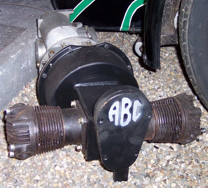 ABC double-piston engine for motorcycles